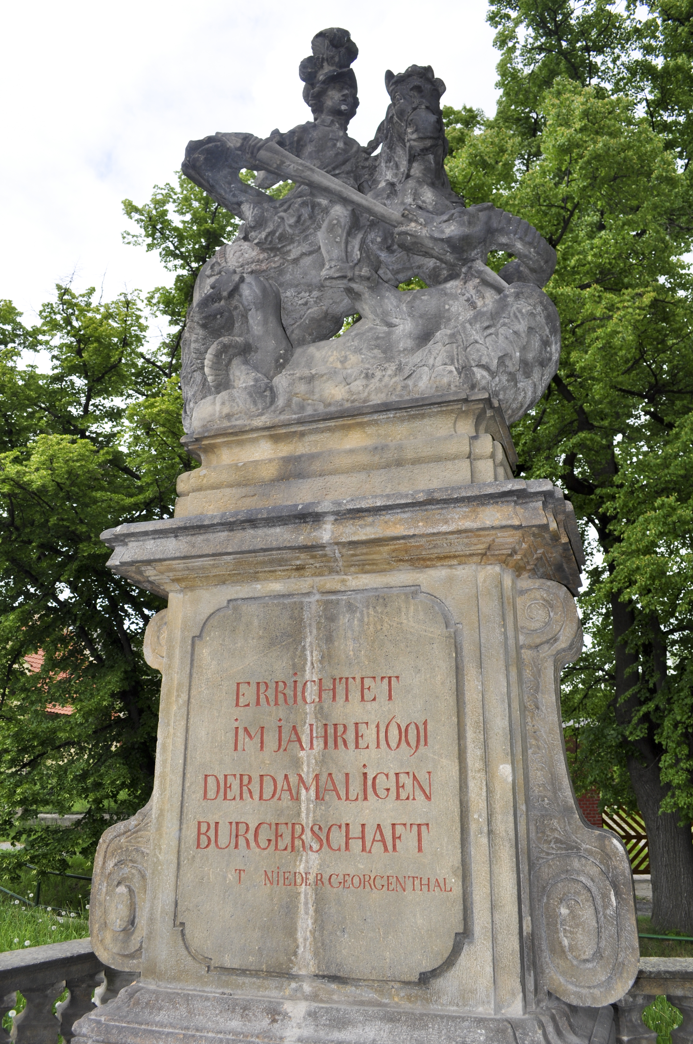 Horní Jiřetín, Baroque sculpture of Saint George from Dolní Jiřetín